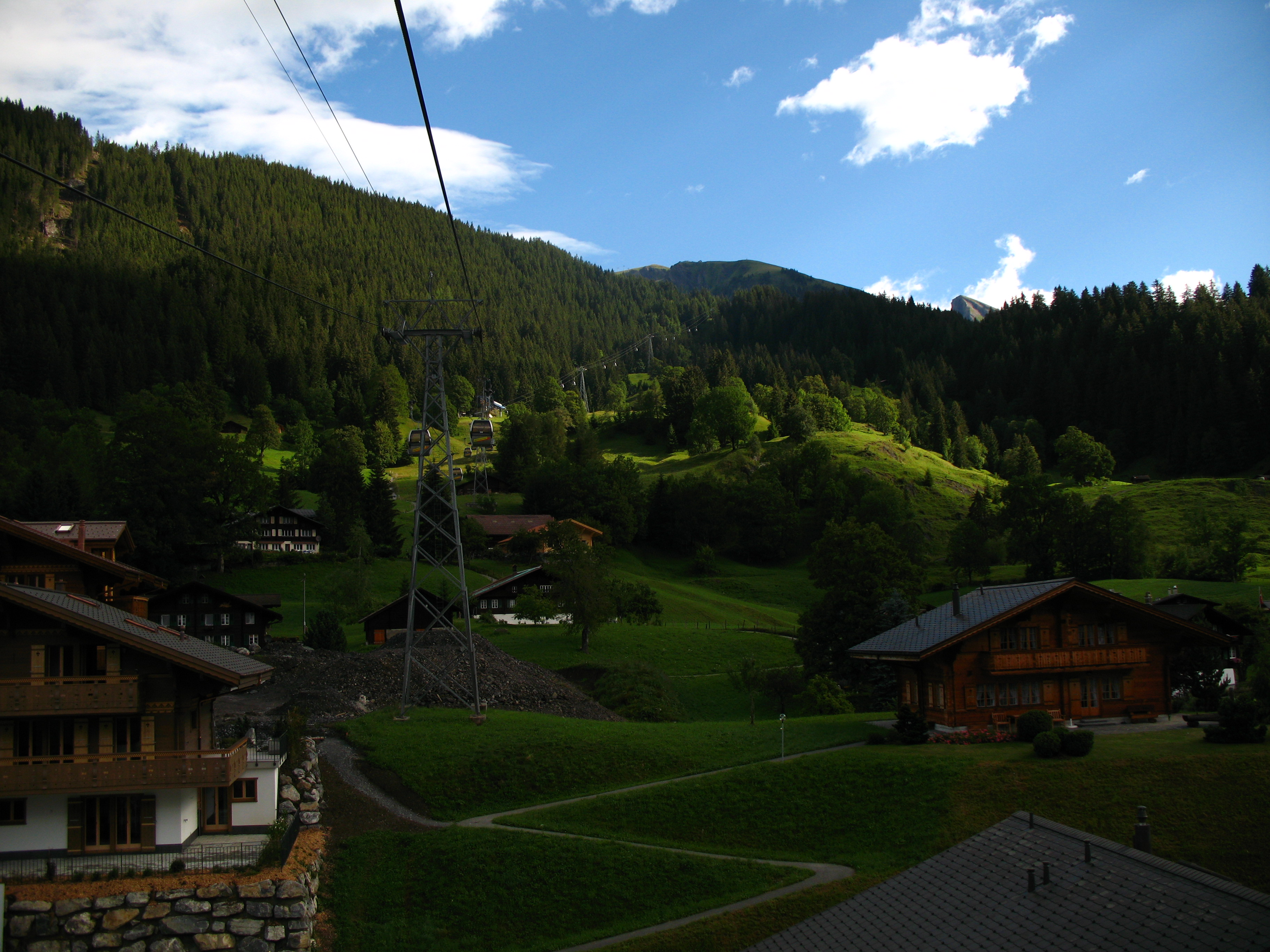 View from the First gondola lift, Grindelwald, Switzerland